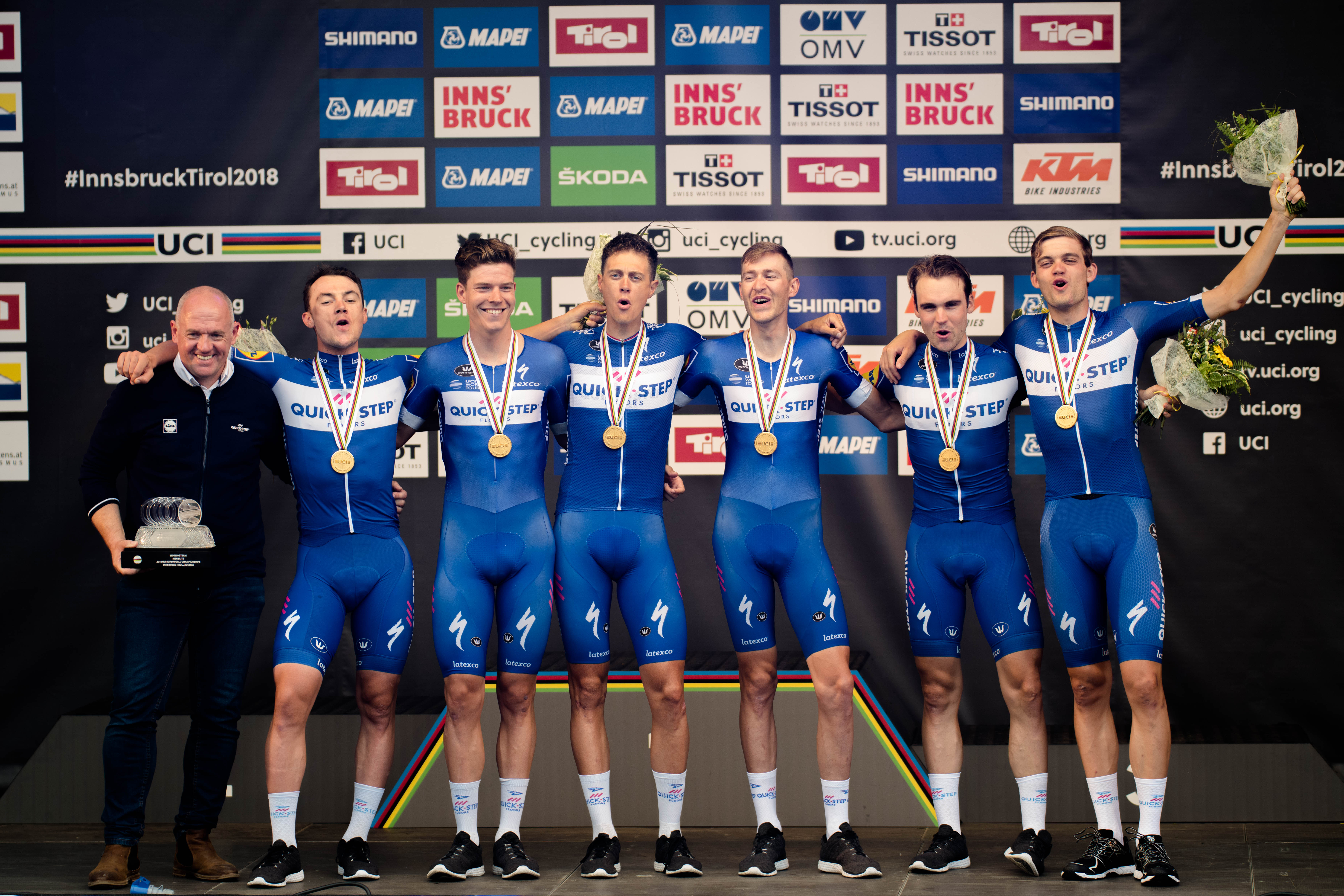 2018 UCI Road World Championships Innsbruck/Tirol Men's Team Time Trial. Picture shows: Kasper Asgreen, Laurens De Plus, Bob Jungels, Yves Lampaert, Maximilian Schachmann and Niki Terpstra of Team Quickstep Floors